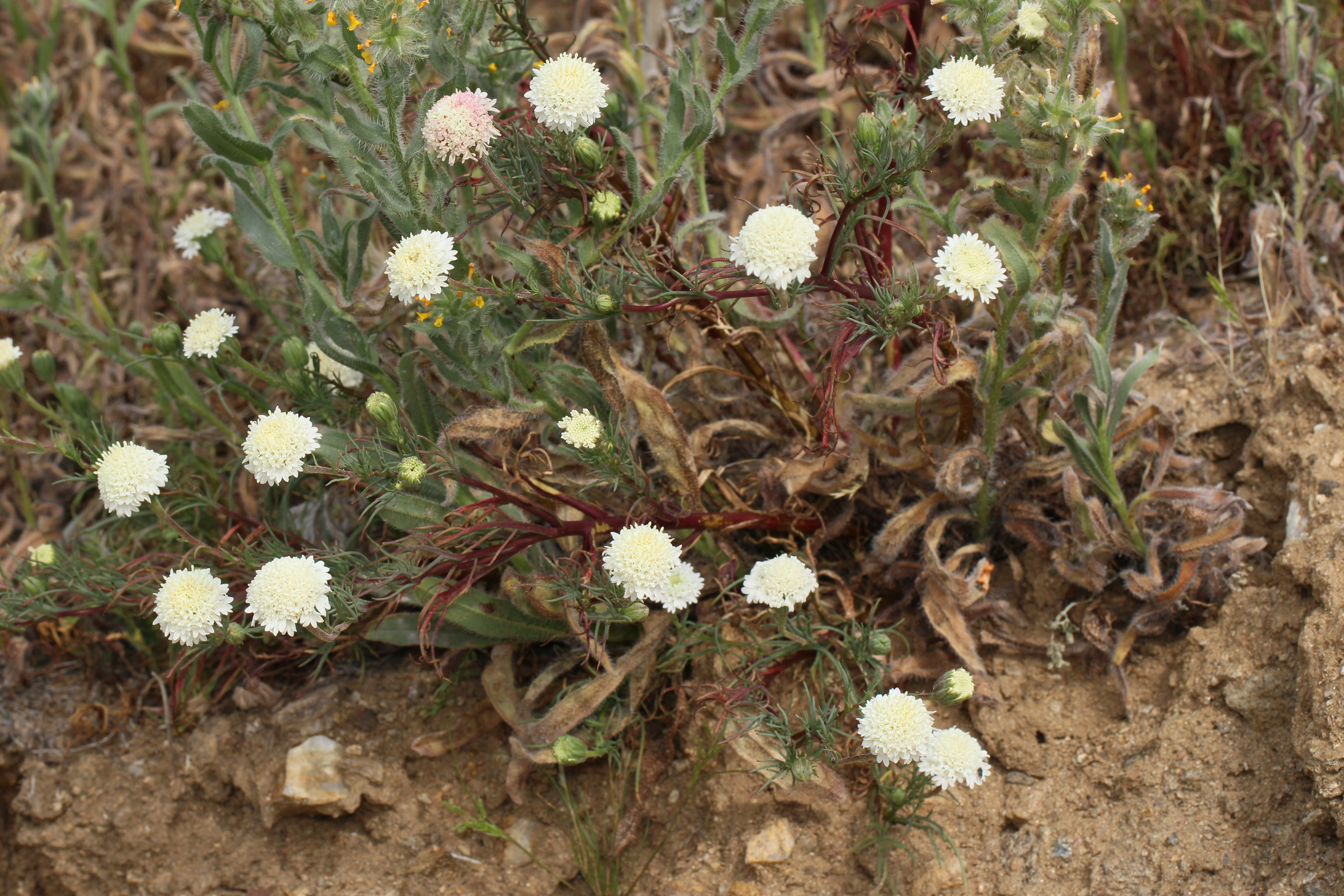 Fremont's Pincushion Identification by: Linda Edwards and Vern Benhart Viewpoint location: Dry wash west of Godde Hill Road, 150 m north of Hacienda Ranch Road; Lancaster, California Viewpoint elevation: 931 meter (3054 ft) Location source: Garmin GPSmap 60CSx Location Datum: WGS84